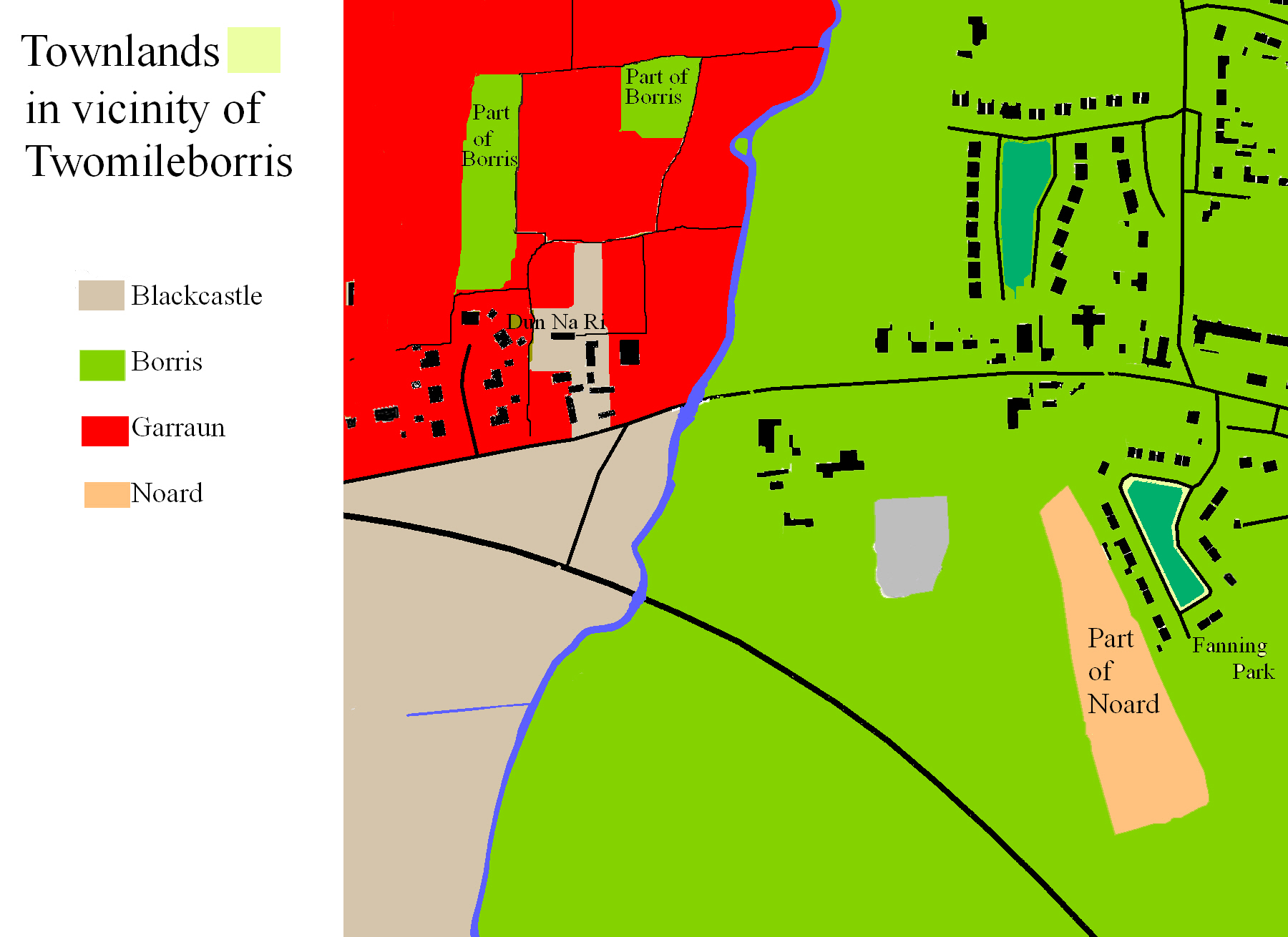 South-eastern corner of Garraun townland in Borrisleigh civil parish, showing modern housing area and exclaves